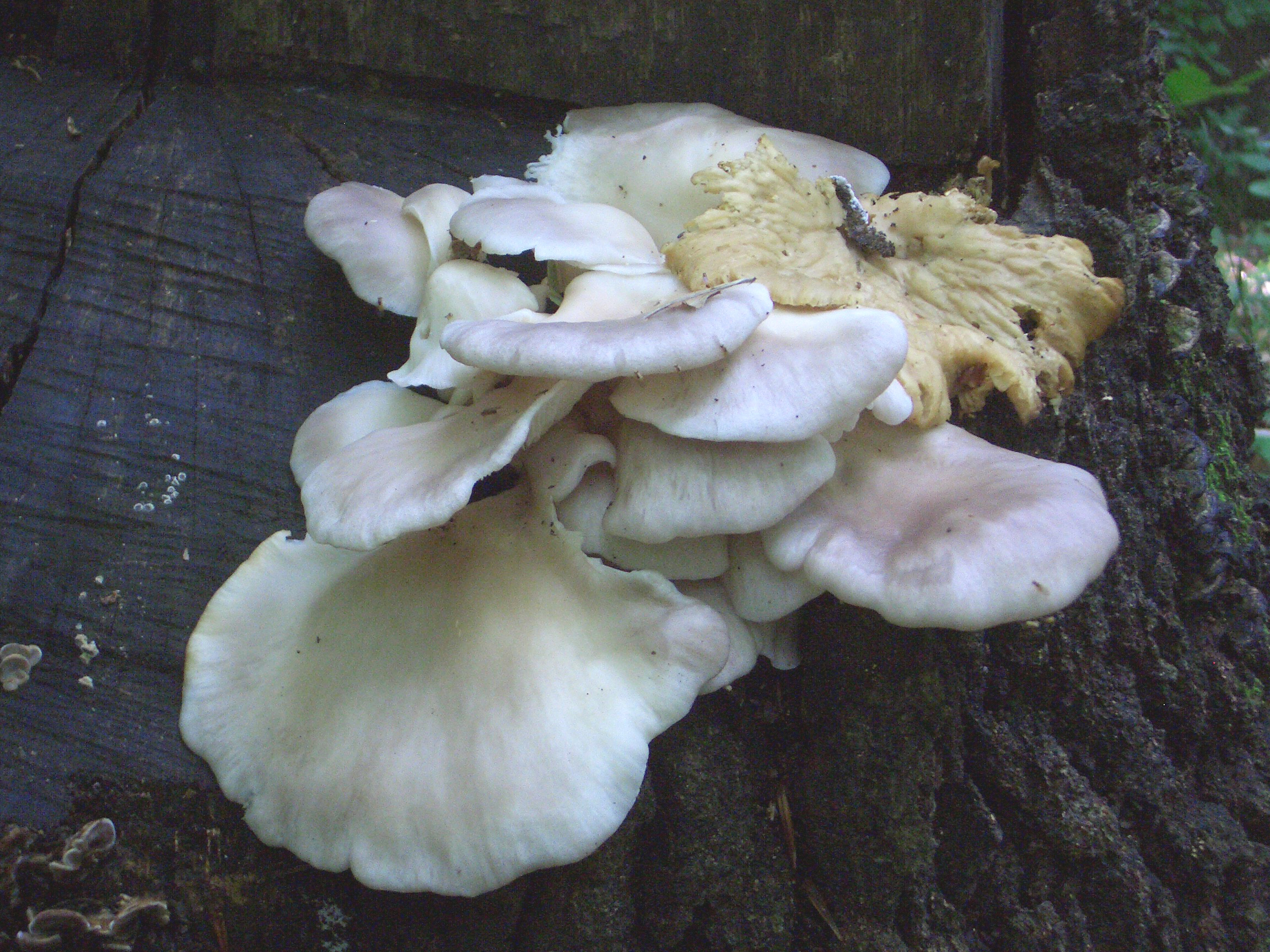 Pleurotus cornucopiae of Šumadija